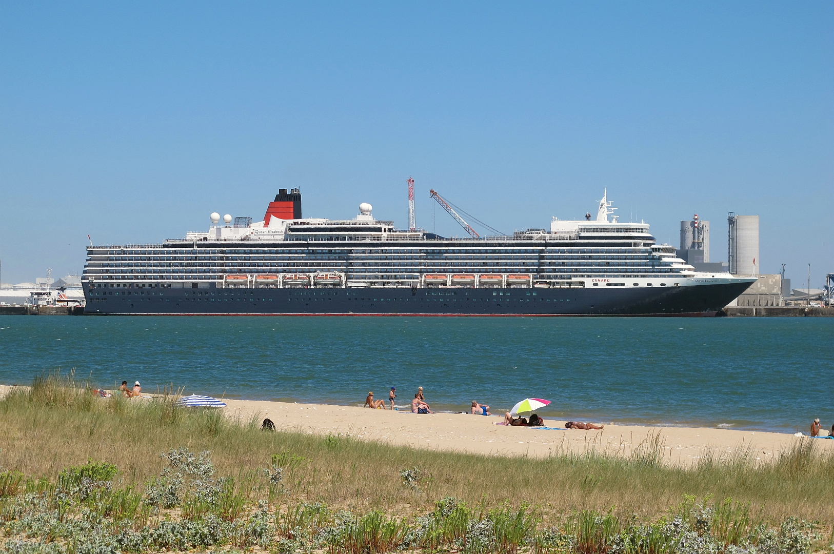 Cunard Line ship MS "Queen Elizabeth" seen from the Île de Ré, in La Rochelle-Pallice harbor (Charente-Maritime France) June 26, 2018.